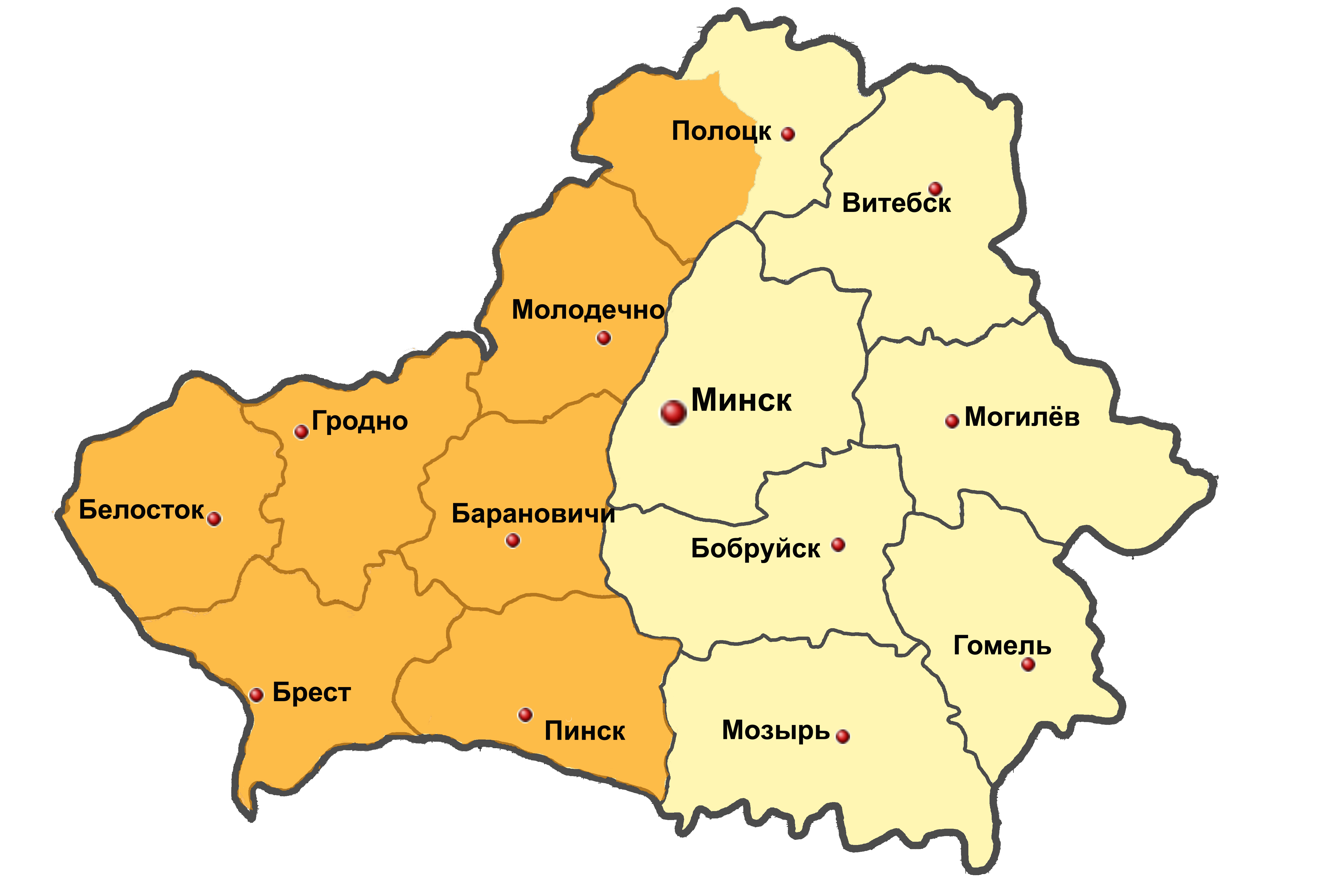 Administrative division of Belarus 1944-1946